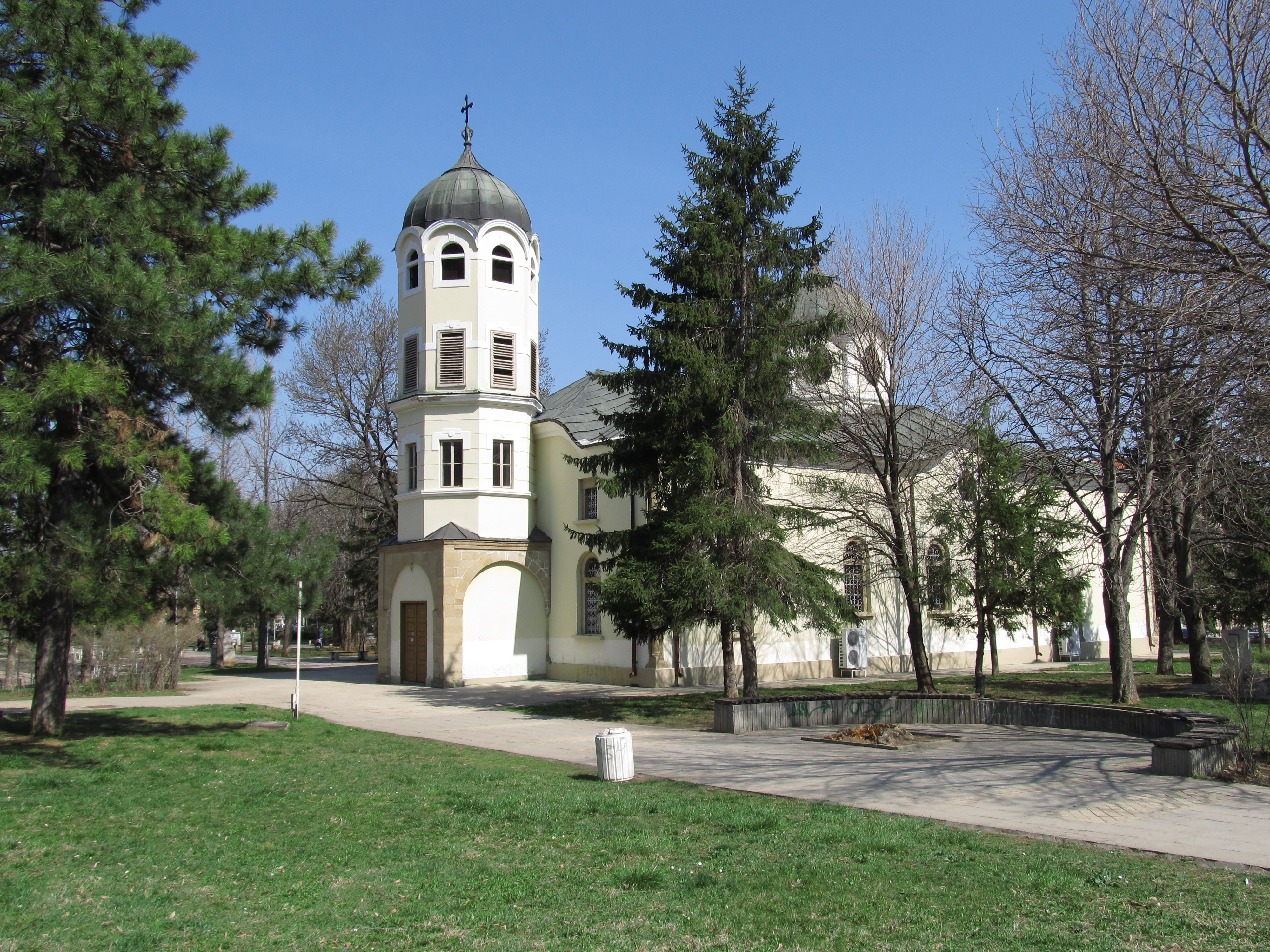 Митрополитски храм " Св. Николай " - Враца